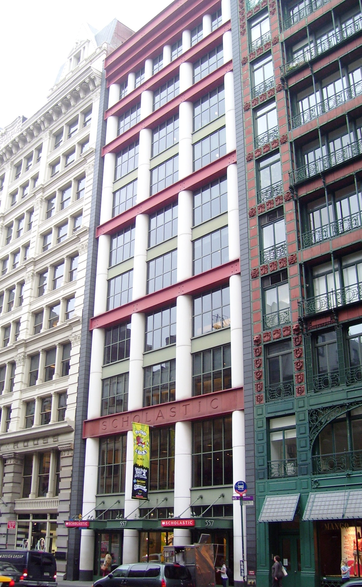 The Scholastic Building at 557 Broadway between Prince and Spring Streets in the SoHo neighborhood of Manhattan, New York City, was the first new building to be constructed in the SoHo-Cast Iron Historic District, replacing a one story garage built in 1954. Completed in 2001, it is the only New York City work by the Italian architect Aldo Rossi. (Sources: AIA Guide to NYC (4th ed.) and "NYCLPC SoHo - Cast-Iron Historic District Designation Report")